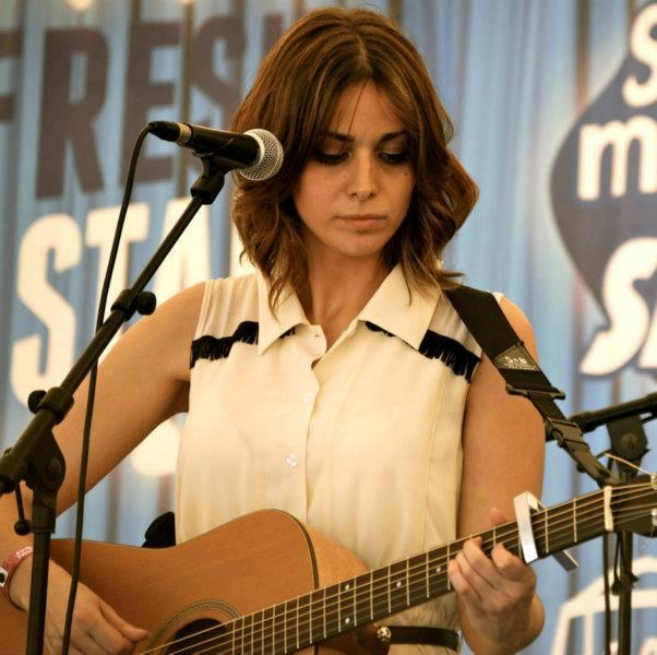 Nat Simons playing in Primavera Sound 2013